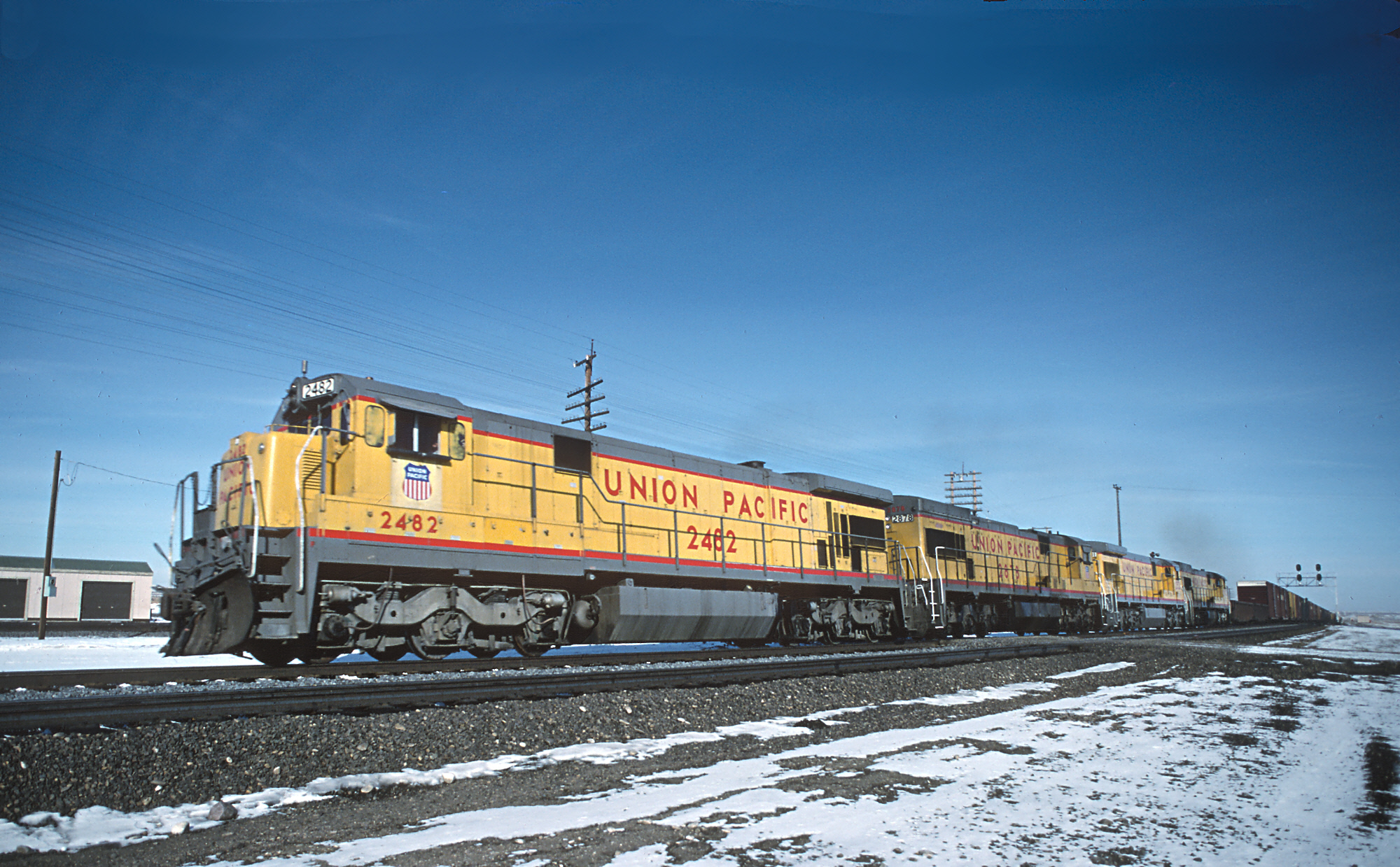 A Roger Puta Photograph